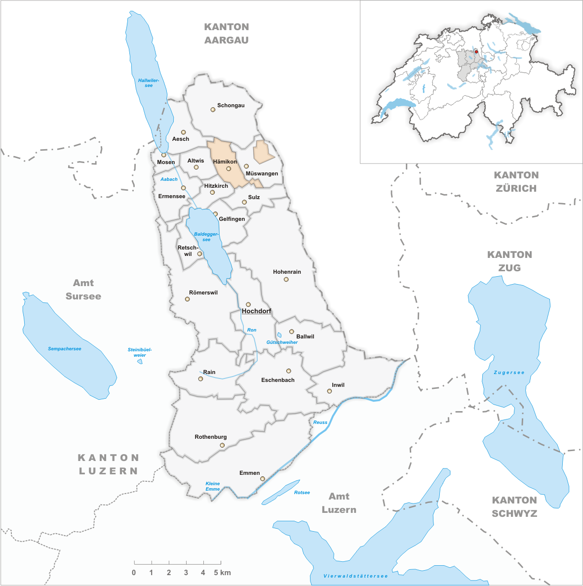 Municipality Hämikon